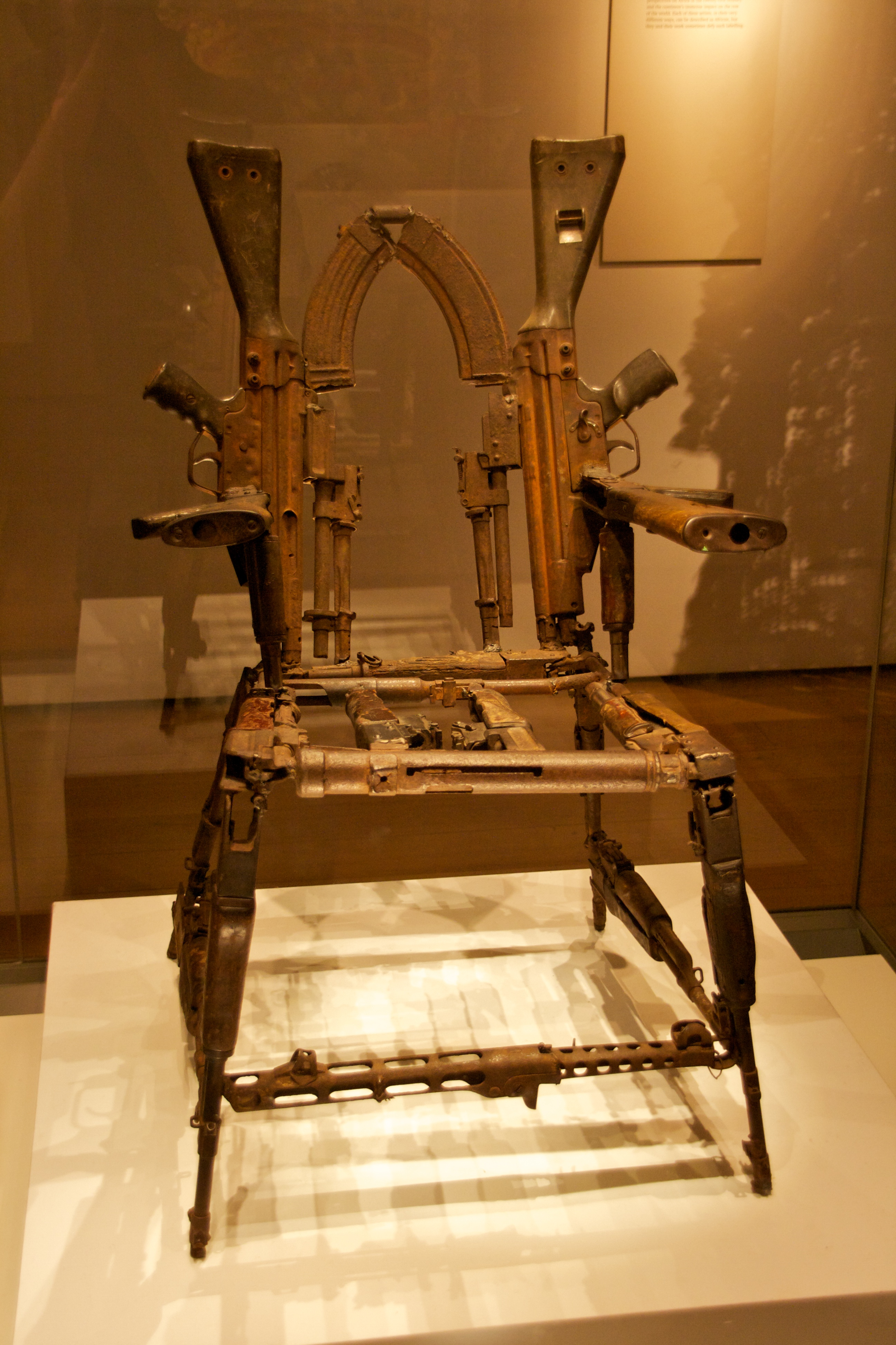 Throne of Weapons. Object 98 of 100. British Museum. AD 2001. Maputo, Mozambique. Metal, wood, plastic. 2002,01.1